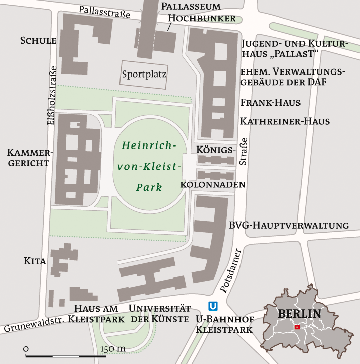 Map of Kleistpark in Berlin and the surrounding buildings.